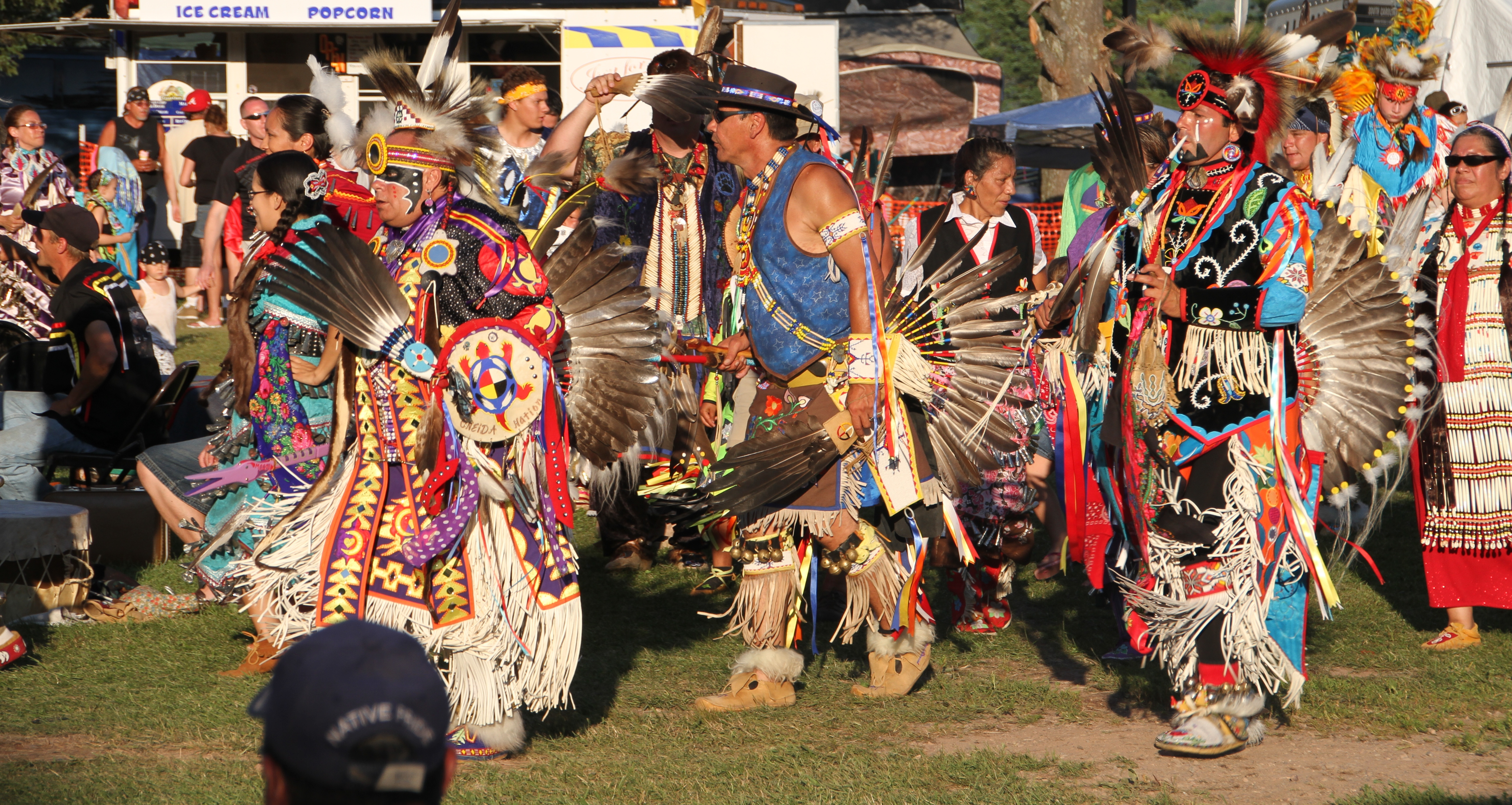 Images from the 34th powwow at Red Clif, north Wisconsin, in July 2012.